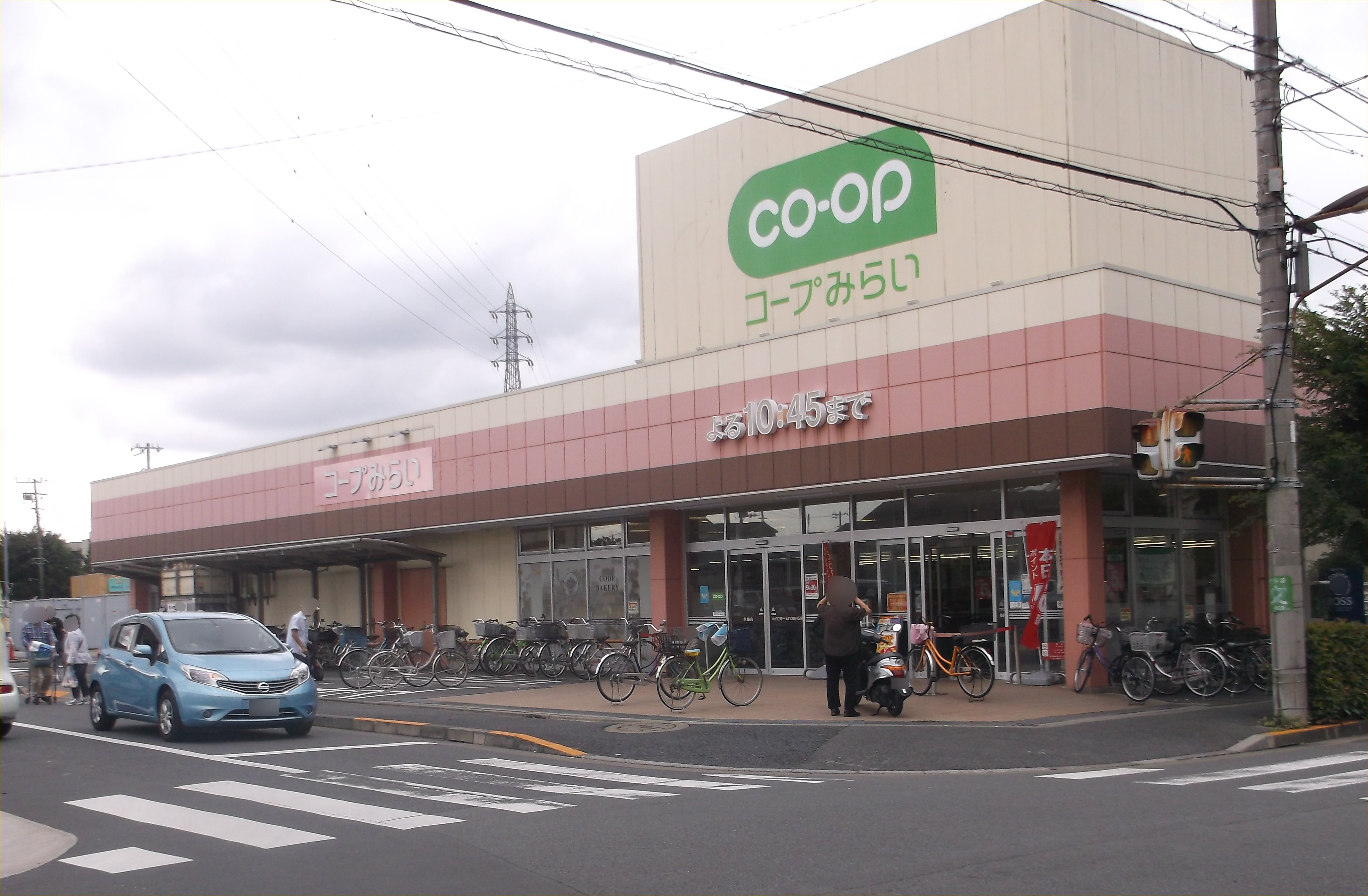 A photo of COOP mirai(a supermarket in Tokyo.)Hanahata branch shop,Hanahata,Adachi-ku,Tokyo,Japan.